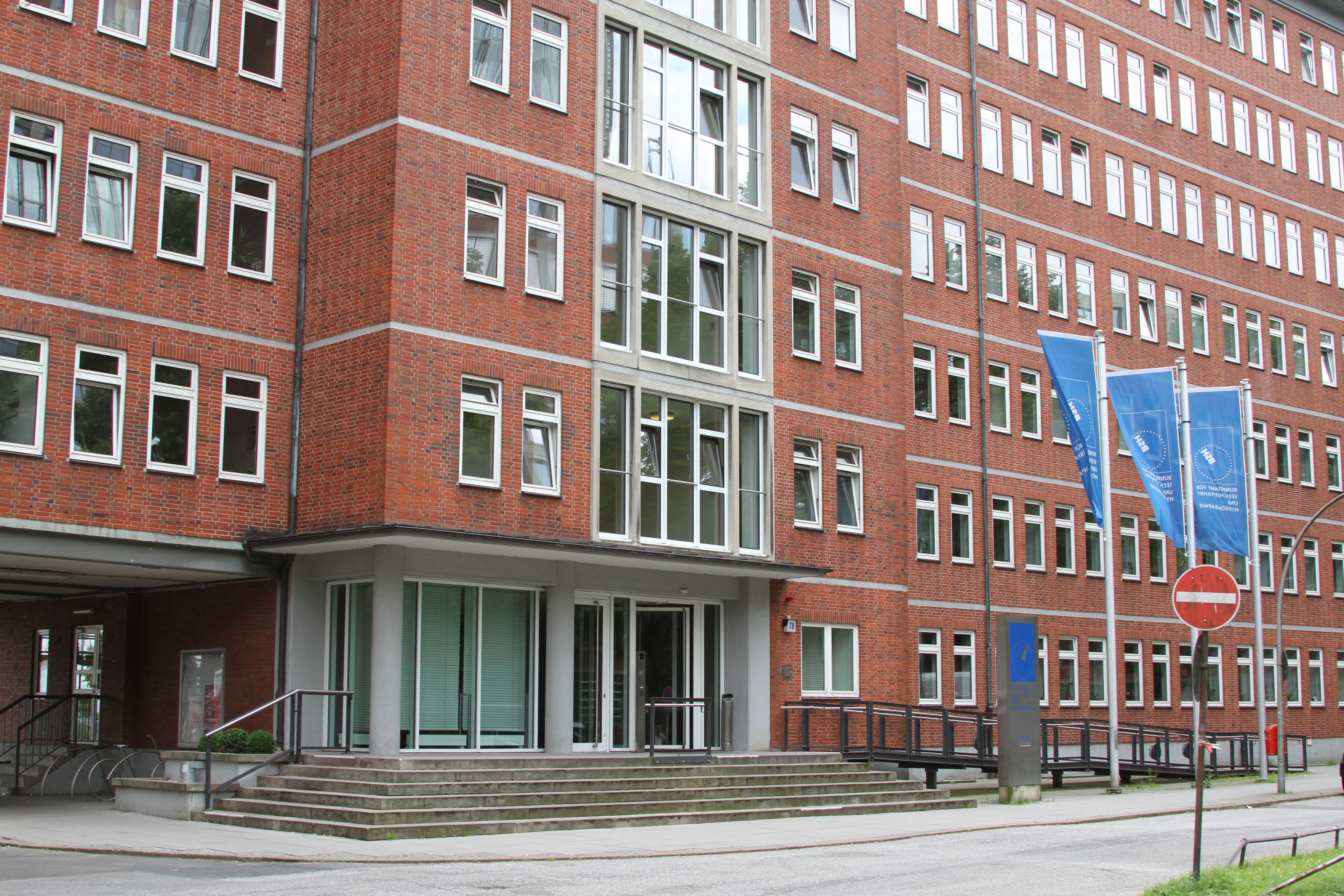 Federal Bureau for Maritime Casualty Investigation head office on the property of the Federal Maritime and Hydrographic Agency of Germany facility